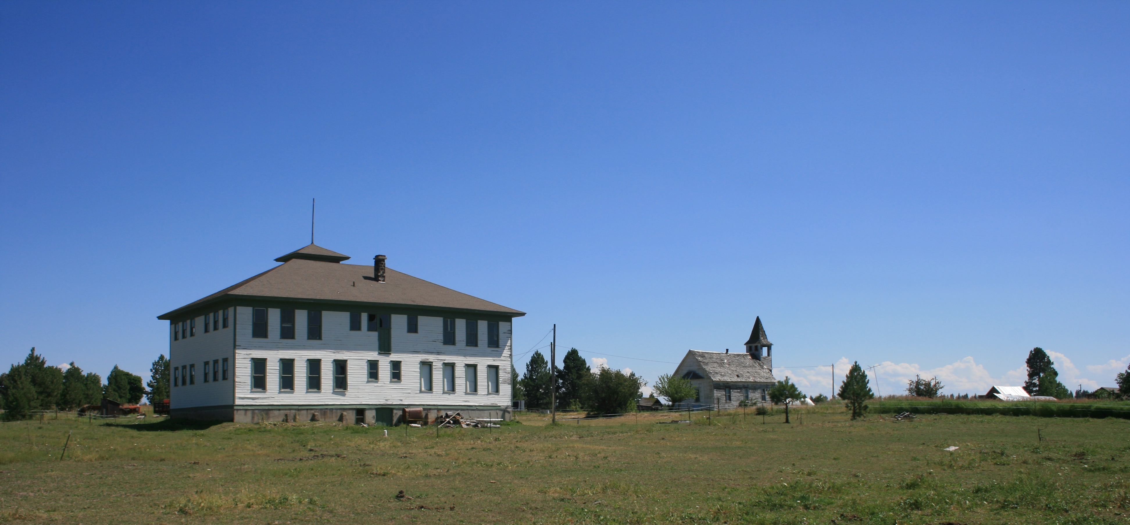 Photo of Flora, Oregon, which is an unincorporated community in Wallowa County, Oregon, United States. It is located about 35 miles north of Enterprise, just off Oregon Route 3, and is considered a ghost town.Flora School, large building is on the NRHP